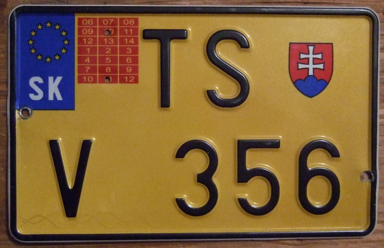 License plate for export from Slowakia